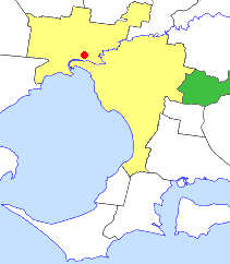 Location of the Shire of Sherbrooke within outer Melbourne.